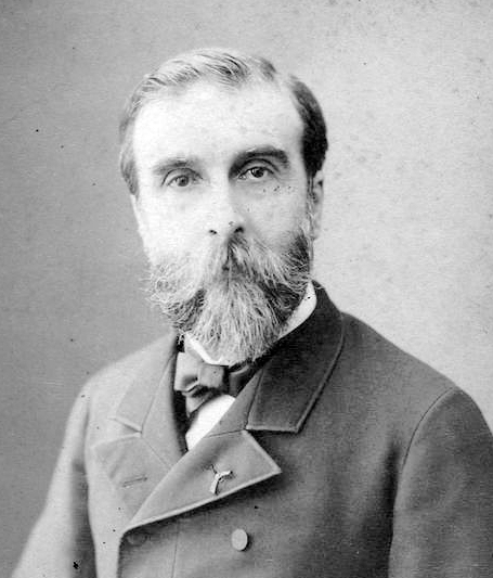 French writer and playwright Ludovic Halévy (1834-1908) photographed by Eugène Pirou (1841-1909).